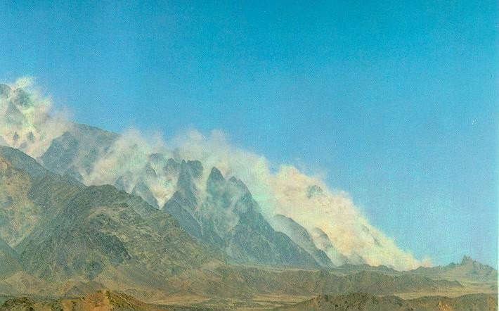 On 28 May 1998 at 15:15 Hrs, Pakistan government announced to have conducted nuclear weapons testing in Balochistan state in Pakistan. The image is shown to have graphite mountains raised up as the nuclear chain reaction builts in. This image is provided by the Pakistan government as a public domain and has been used by media outlets and research papers as part of the significance. This was a historic event and "finest hours" as noted by the officials in Pakistan government. No image is known to exist. It shall only be used for promotional purpose only. All rights reserved by the Government of Pakistan.